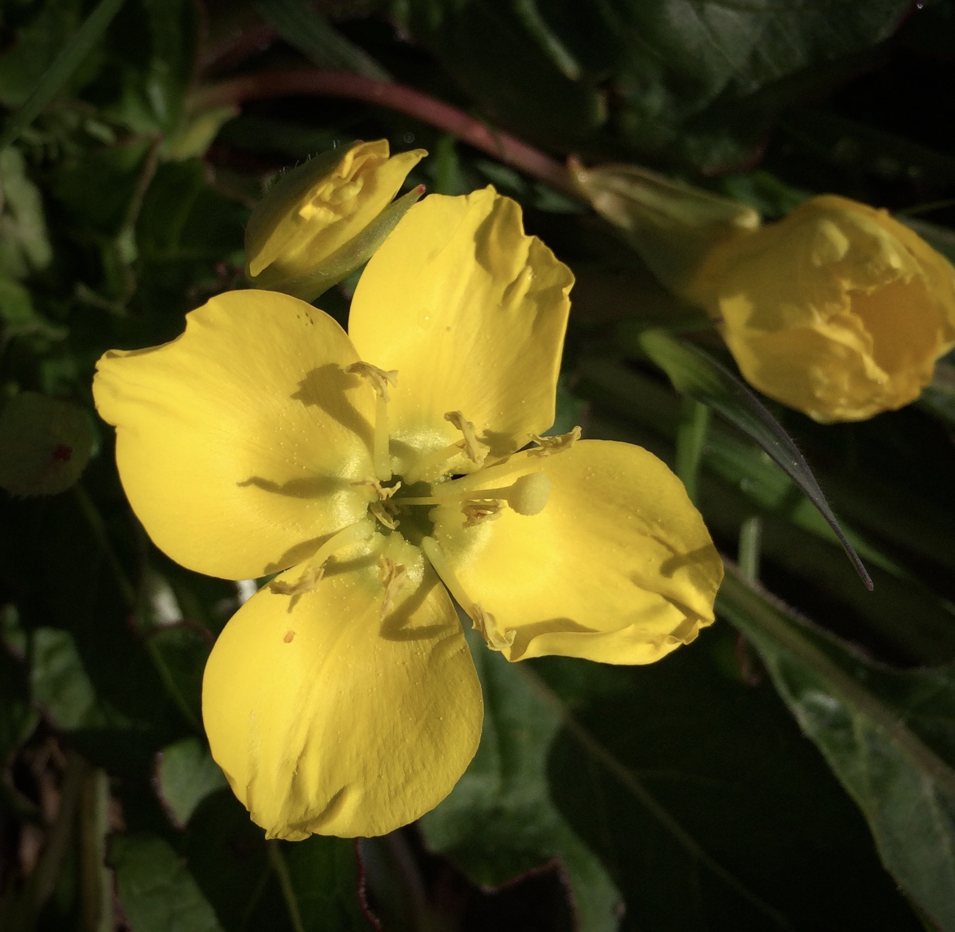 Hearst-San Simeon SP, Bluff trail north of the fancy houses on Lone Palm Dr.